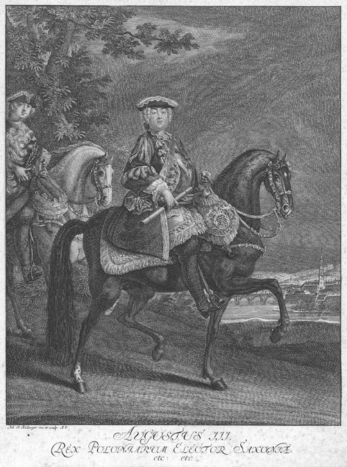 Augustus III. Rex Poloniarum Elector Saxoniae etc. etc.